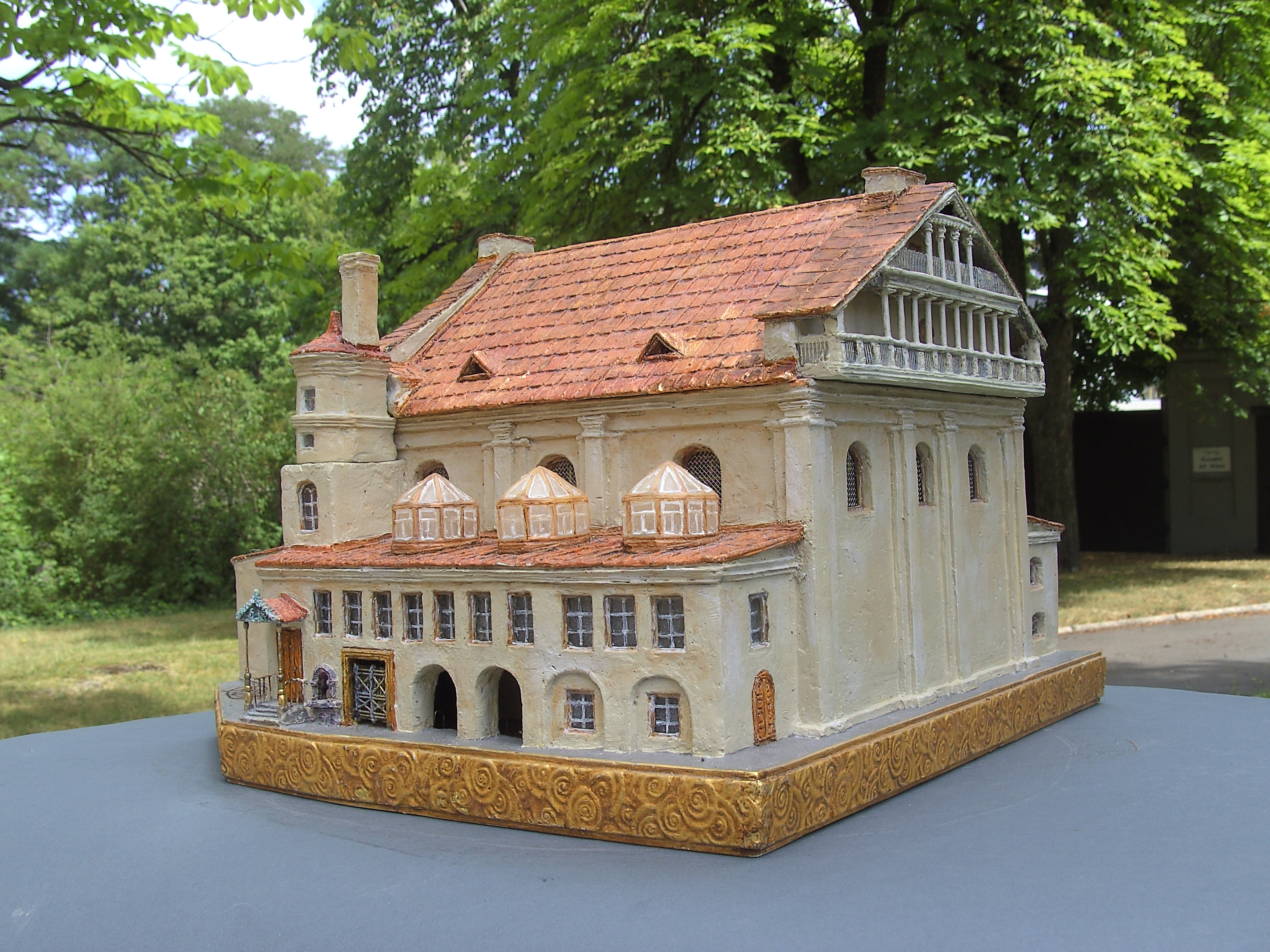 Model of the Great Synagogue of Vilna, Vilnius, Lithuania, 29x42x43 cm, plastics, 2018